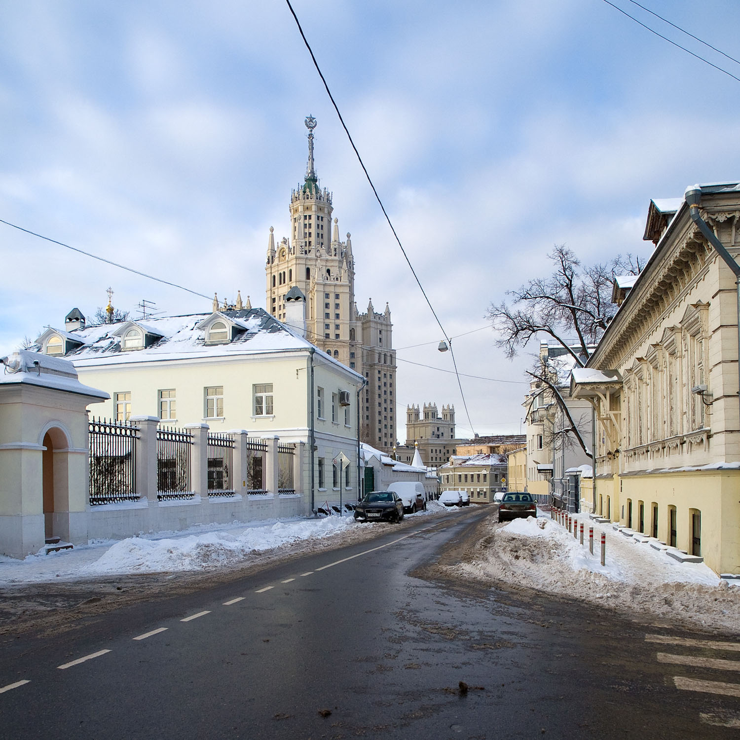 Goncharnaya Street, Moscow